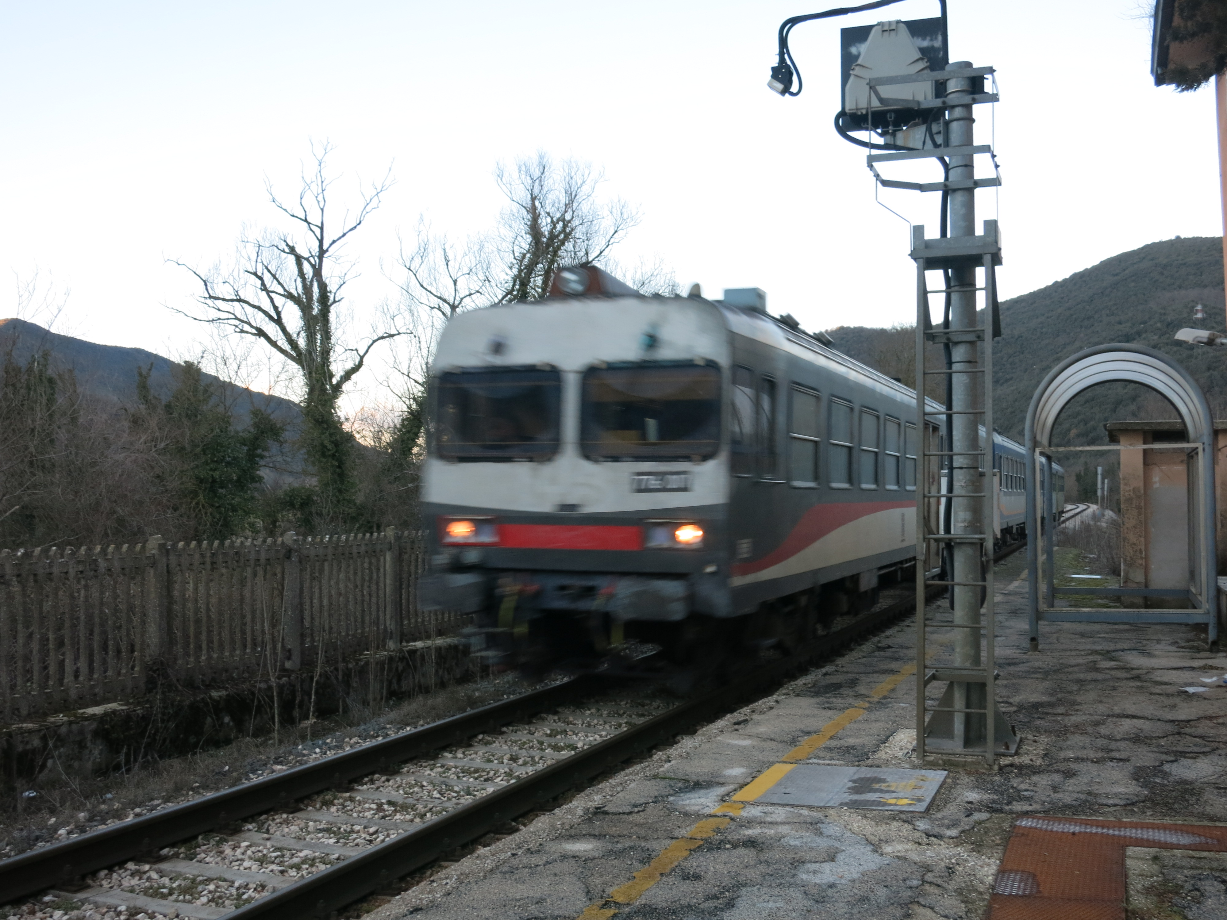 Labro-Moggio train station (province of Rieti, Lazio, Italy), on the Terni-Rieti-L'Aquila-Sulmona line.